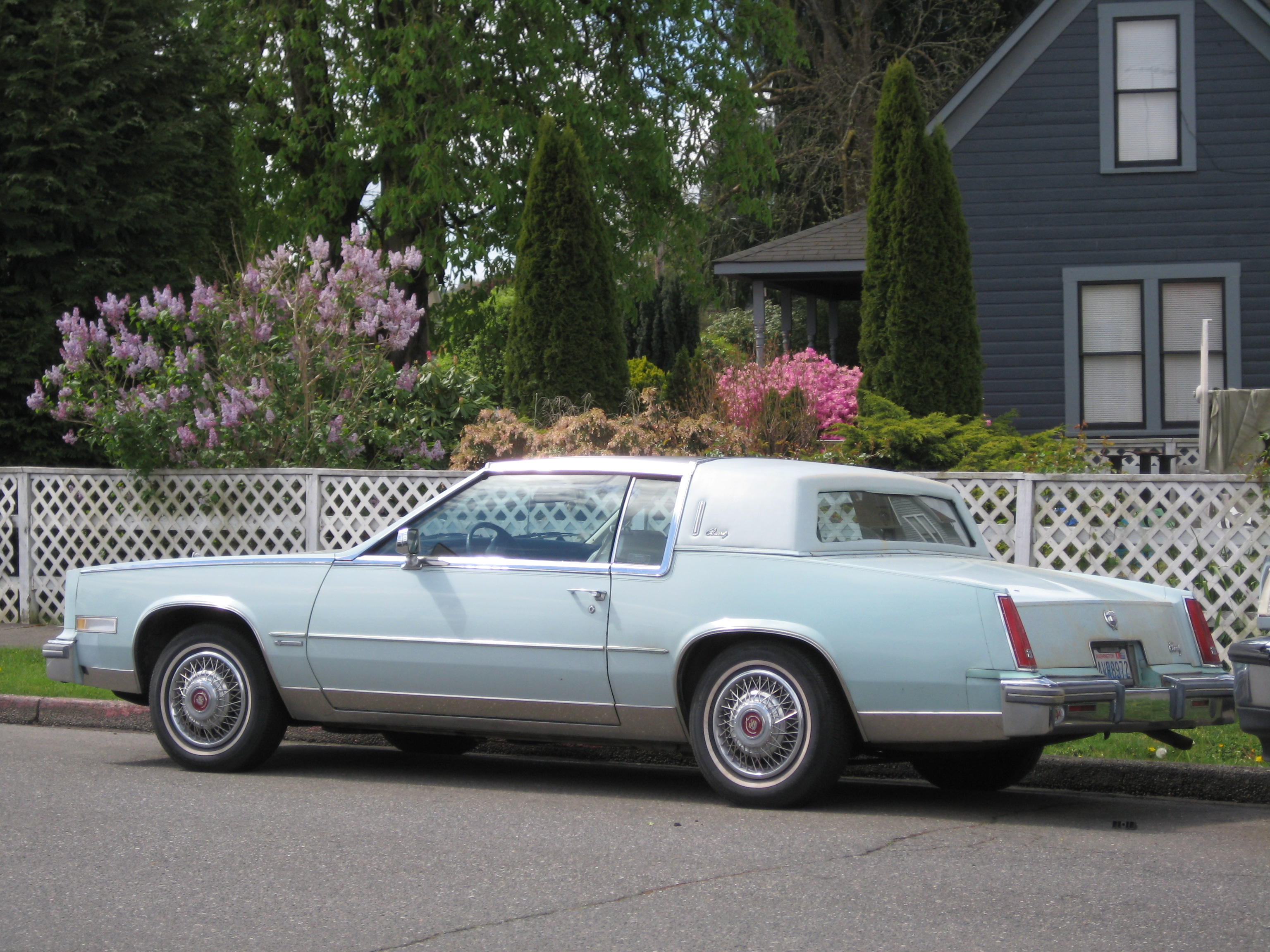 Cadillac Eldorado Nice old example on the street last week, and some spring flowers to enhance the display.